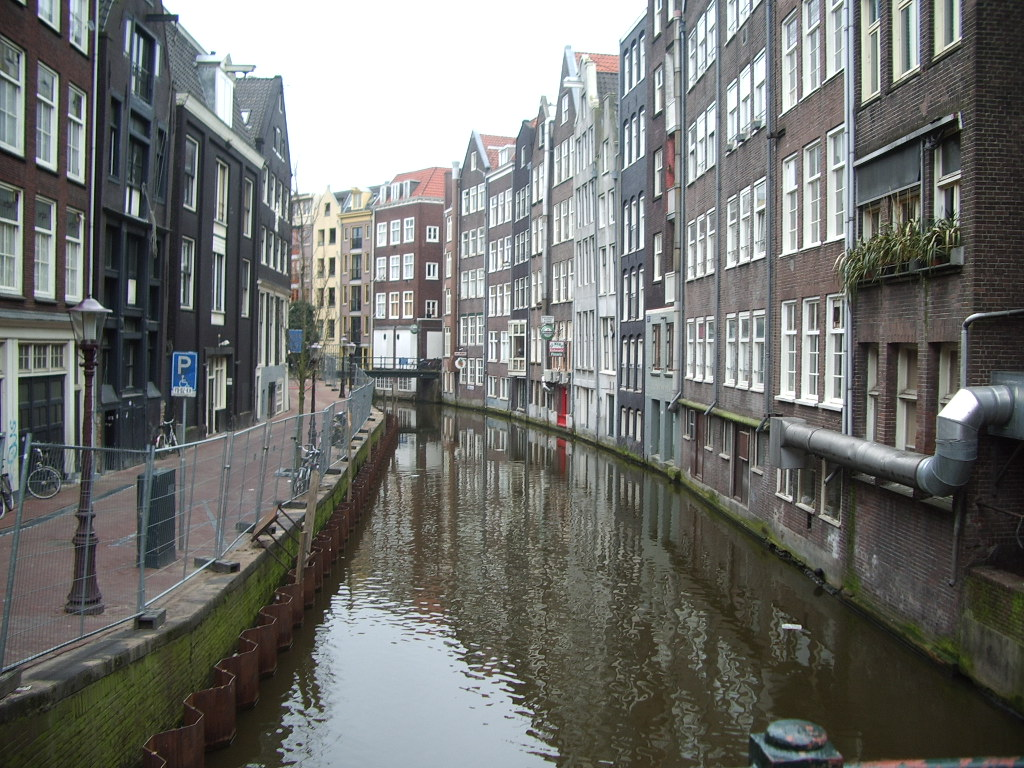 Canal in Amsterdam Date: March 2005 Taken by User:Woozifi himself.